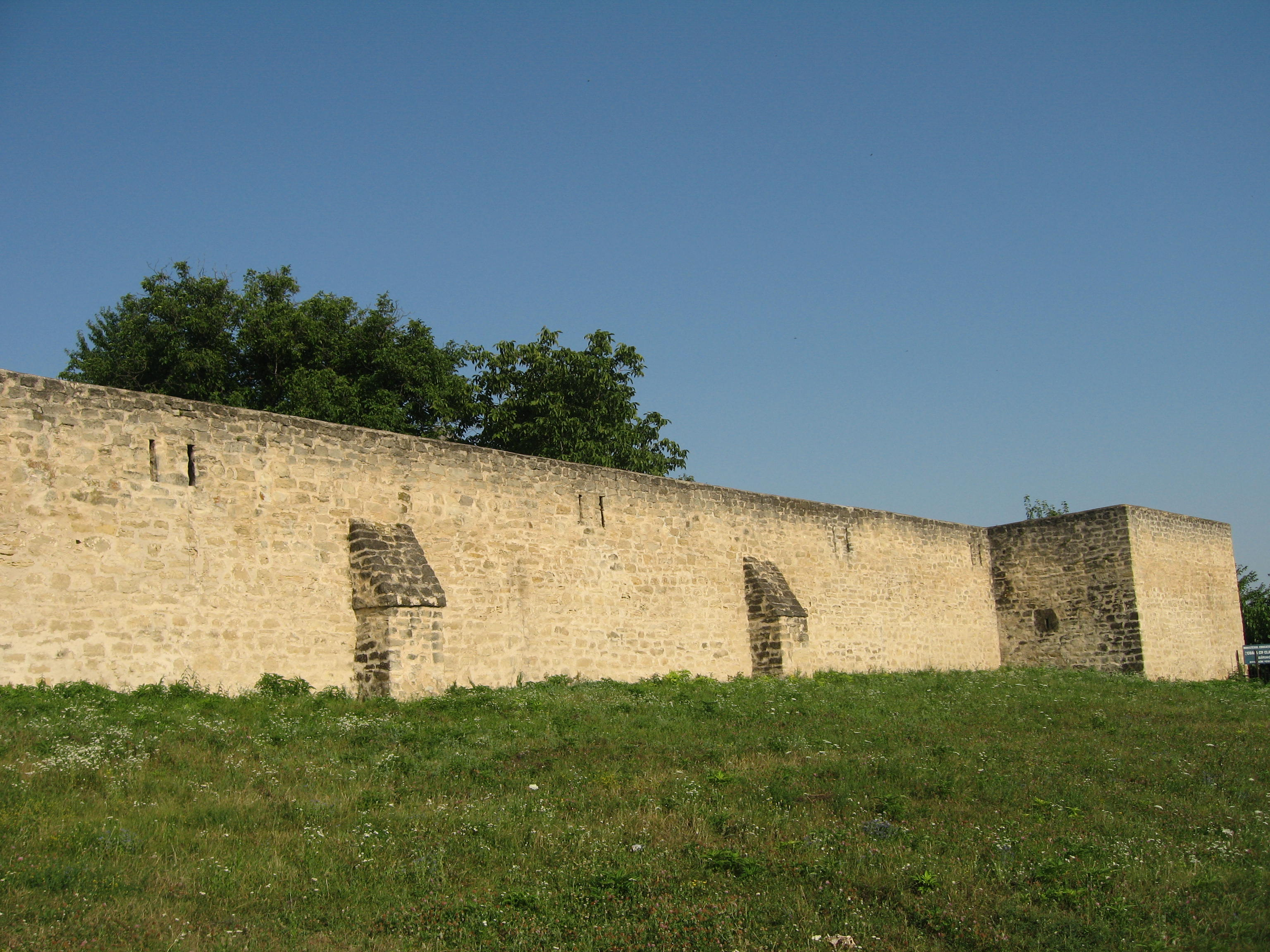 Mănăstirea Bârnova 05